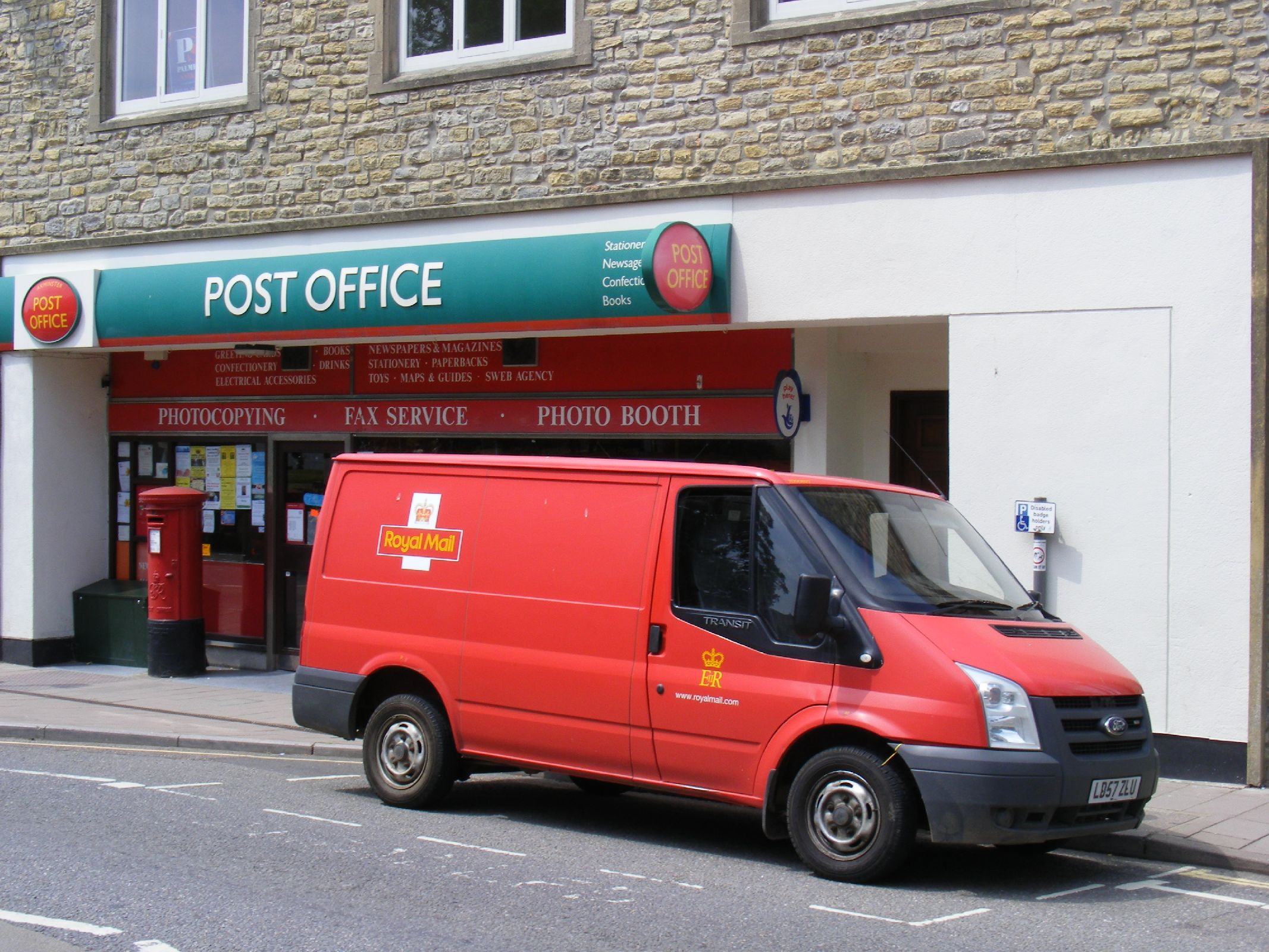 Axminster Post office, Axminster, Devon June 2011